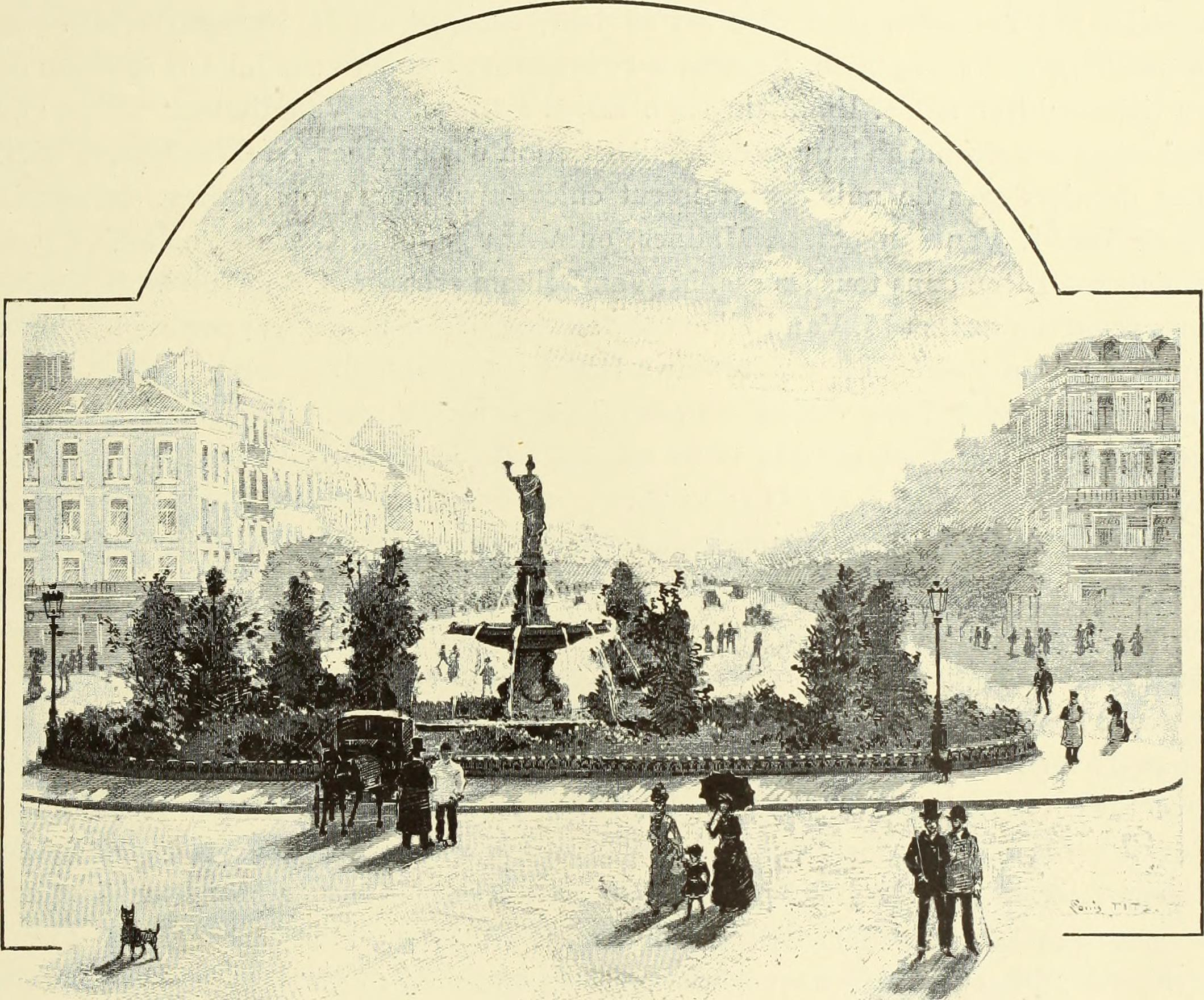 Title: Bruxelles à travers les âges Year: 1884 (1880s) Authors: Hymans, Louis Salomon, 1829-1884 Hymans, Henri, 1836-1912 Hymans, Paul, 1865-1941 Subjects: Publisher: Bruxelles : Bruylant-Christophe Text Appearing Before Image: i MAI l835, VUE PRISE PRÈS DE BRUXELLES,inist Fourmois, communiquée par M. Molenschot. CHAPITRE II. 121 accompagné dune caisse quil pose à côté de lui, sous le prétexte que les voyageursne payent pas pour le transport des bagages quils prennent avec eux. Après unehalte à Vilvorde, le train se remet en marche, avec une violente secousse quisurprend M. Van Pelkom dans une trompeuse sécurité. La caisse dégringole et Text Appearing After Image: La place Rotjppe et lavenue du Midi.Dessin de Louis Titz. laimable industriel va donner de la tète contre le fond de la voiture, ce qui necause aucun dommage au matériel de ladministration, mais afflige M. Van Pelkomdune forte protubérance et en même temps fait rentrer dun coup la bosse desvoyages, si développée dans ce crâne bruxellois jusqualors parfaitement équilibré.A Louvain, M. Van Pelkom a lidée lumineuse de monter dans un wagondécouvert, afin de jouir de la vue de la campagne. Tout à coup un nuage obscurcitlhorizon et fond en torrents de pluie. M. Van Pelkom, qui sest muni dunparapluie, louvre aussitôt. Mais le vent se lève, et en même temps quil nettoie 122 BRUXELLES MODERNE. le ciel et chasse les nuées, il brise le parapluie et emporte sur ses ailes le chapeaubossué et la perruque défrisée de M. Van Pelkom. Le pauvre homme heureusementavait en poche une casquette neuve. Il sen coiffe et la carre sur sa tête tondue,et, le ciel sétant rasséréné, le sole